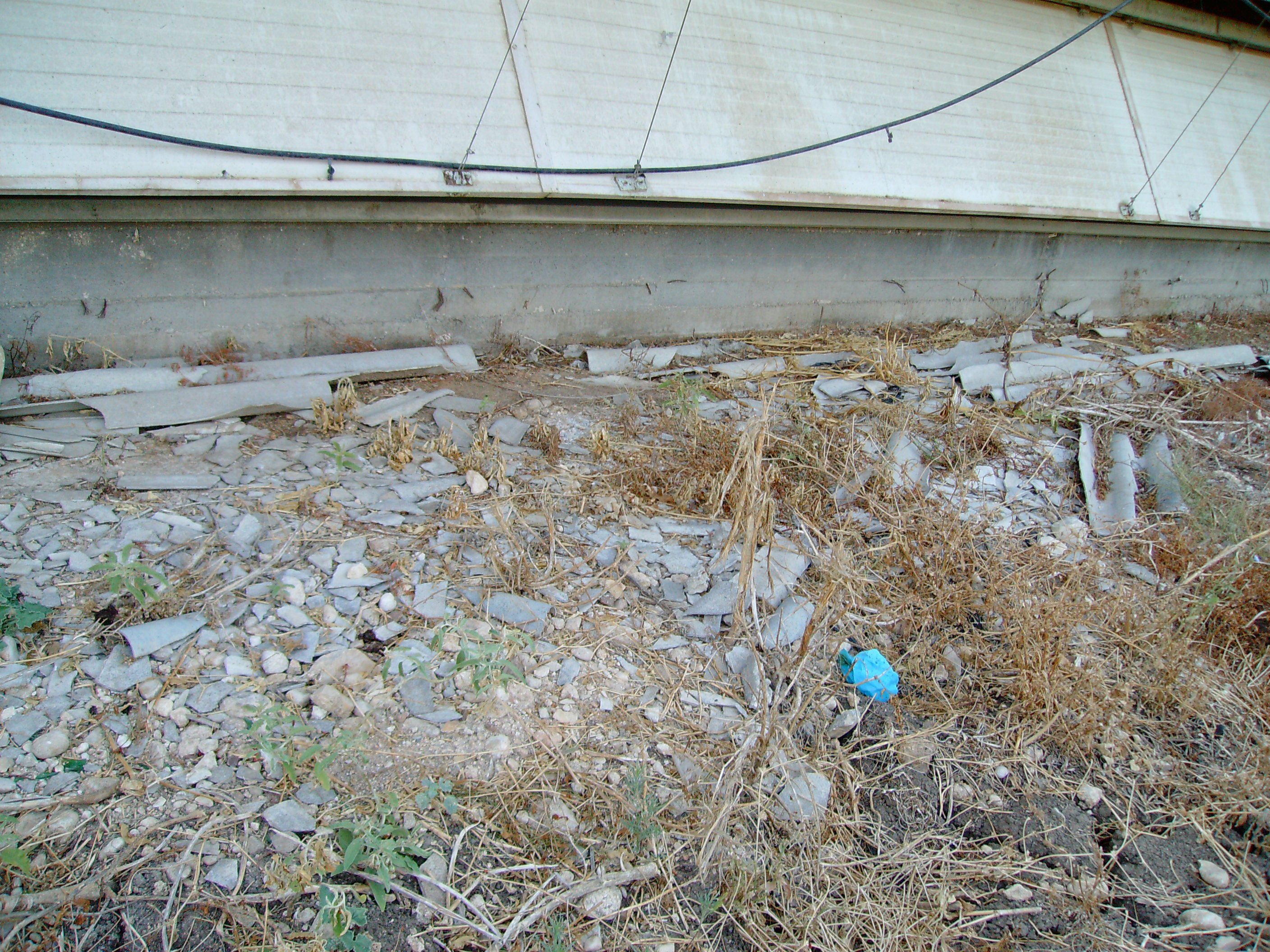 This example of a common hen-house in Kfar Yehoshua, Israel, has its roof made of asbestos. Large and small pieces of asbestos cover the ground near it, including very small ones that were grinned to dust by human feet or moving vehicles. Asbestos is now forbidden for use in the western world, due to its link to several forms of cancer in addition to lung cancer. See for example Bunderson-Schelvan, Melisa et al.: "Nonpulmonary Outcomes of Asbestos Exposure", Journal of Toxicology and Environmental Health, Vol. 14 (2011) Part B, pp. 122–152.